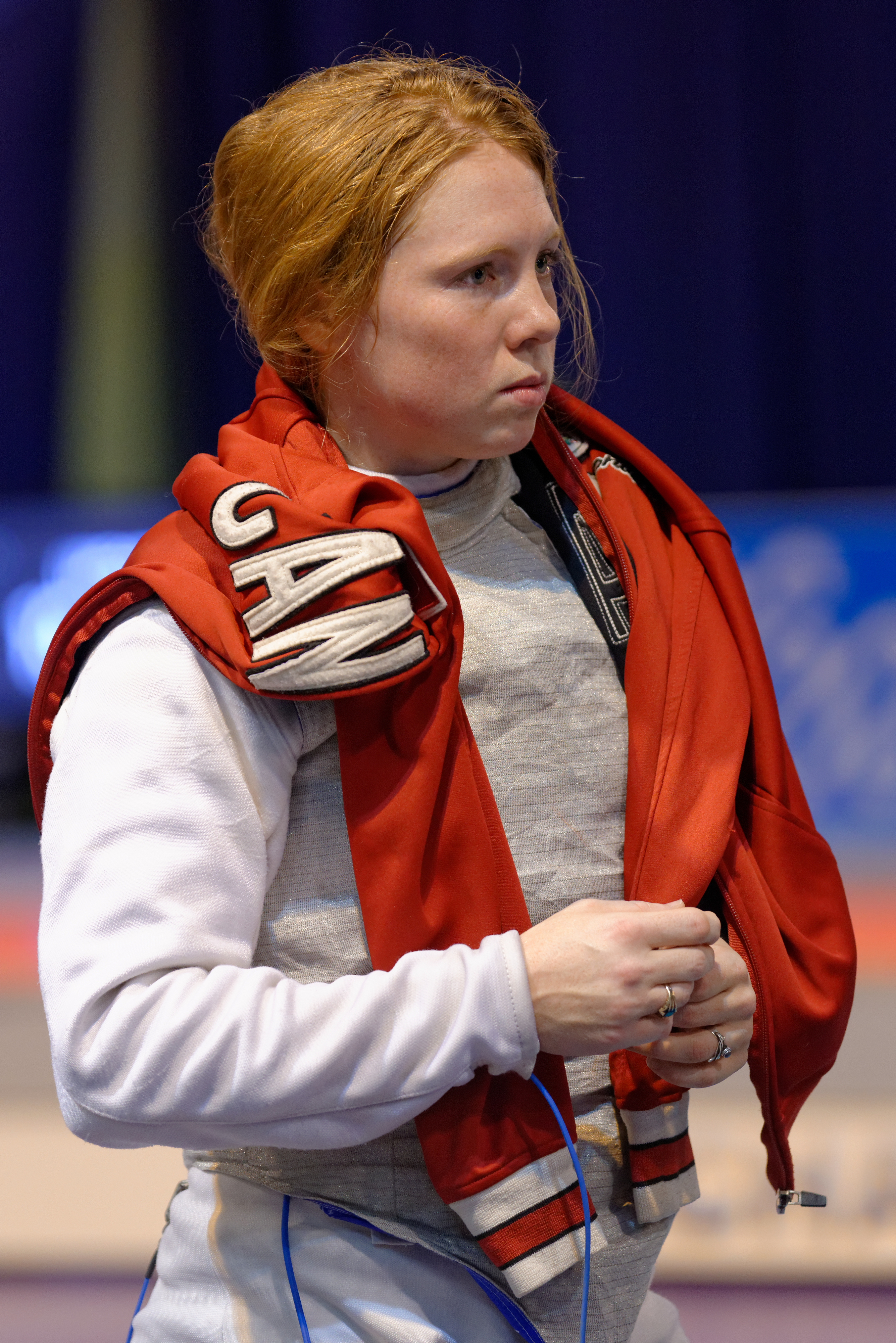 Canada's Kelleigh Ryan at the Saint-Maur Women's Foil World Cup.